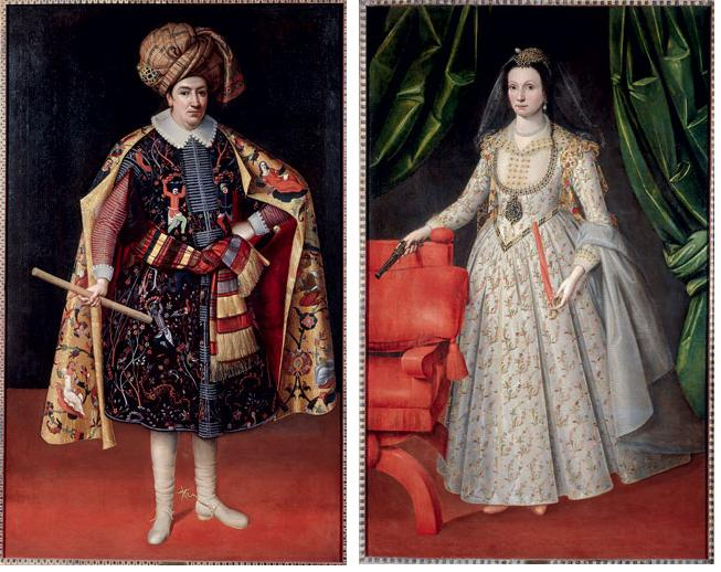 Robert Shirley and his wife Teresia - double portrait from collection of R.J.Berkeley